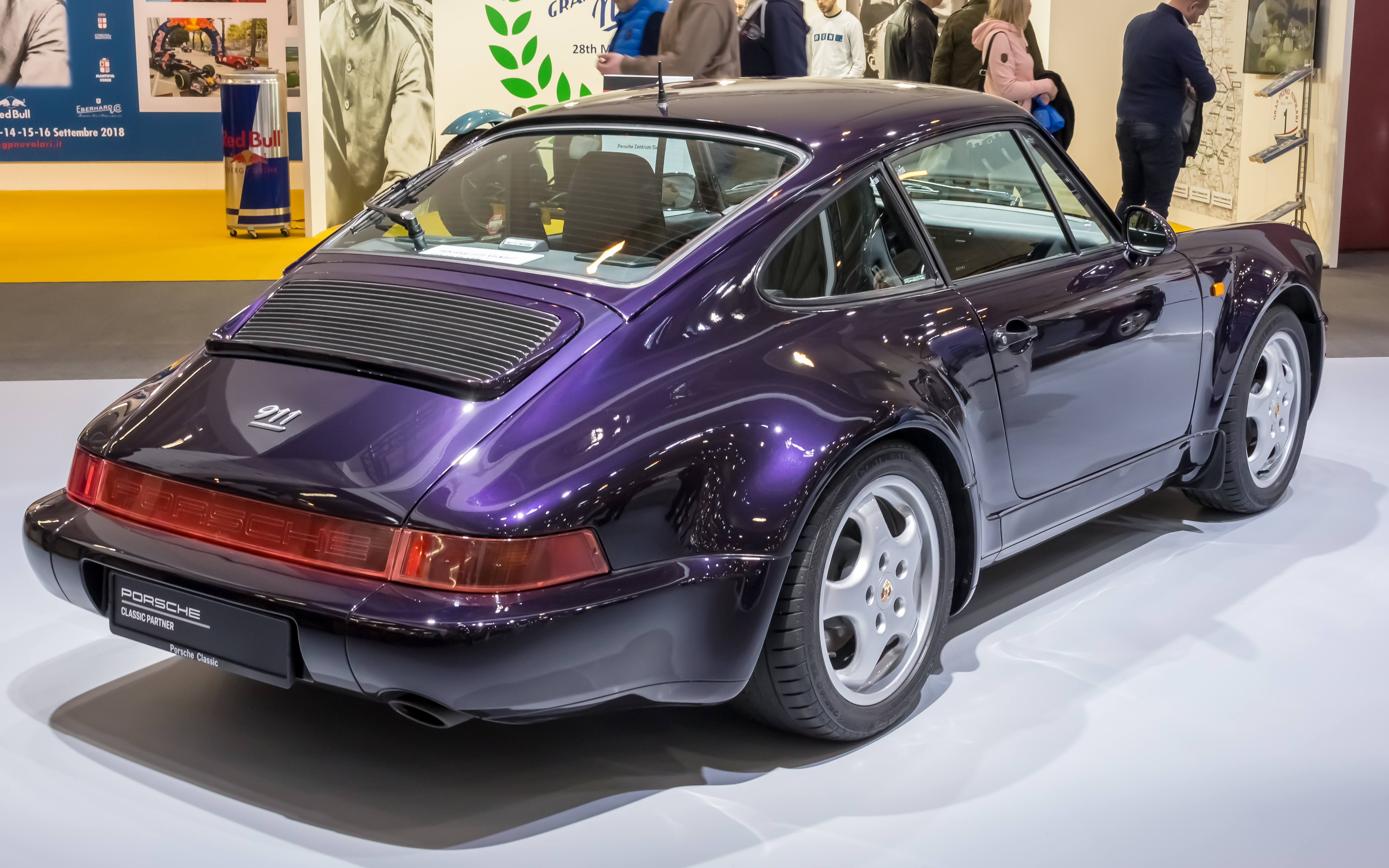 Porsche 911 30th anniversary model, Techno-Classica 2018, Essen